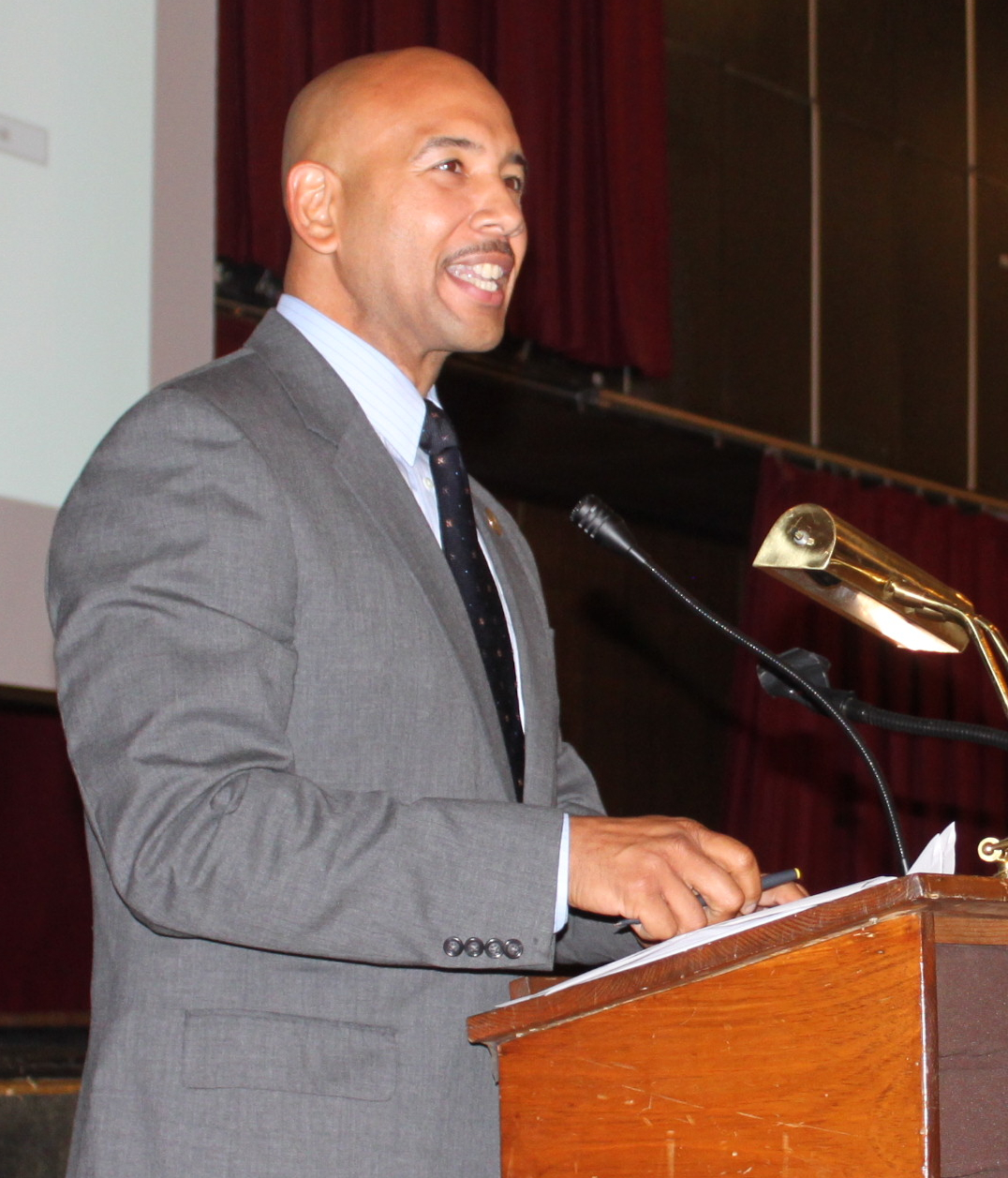 On Monday, September 24, 2012, approximately 800 residents of the Co-Op City area of the Bronx attended a public meeting held by MTA Metro-North Railroad. Officials from the railroad presented details of a new Metro-North station proposed for the Co-Op City area, and gathered public feedback as part of an ongoing planning study. In this photo, Bronx Borough President Ruben Diaz Jr. is speaking at the lectern. Photo courtesy of the Office of Bronx Borough President Ruben Diaz Jr.